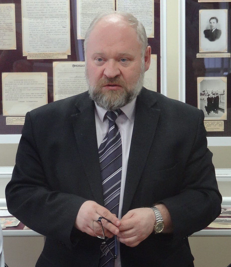 Doctor of History, Professor Valery Yurchenkov. 2015.